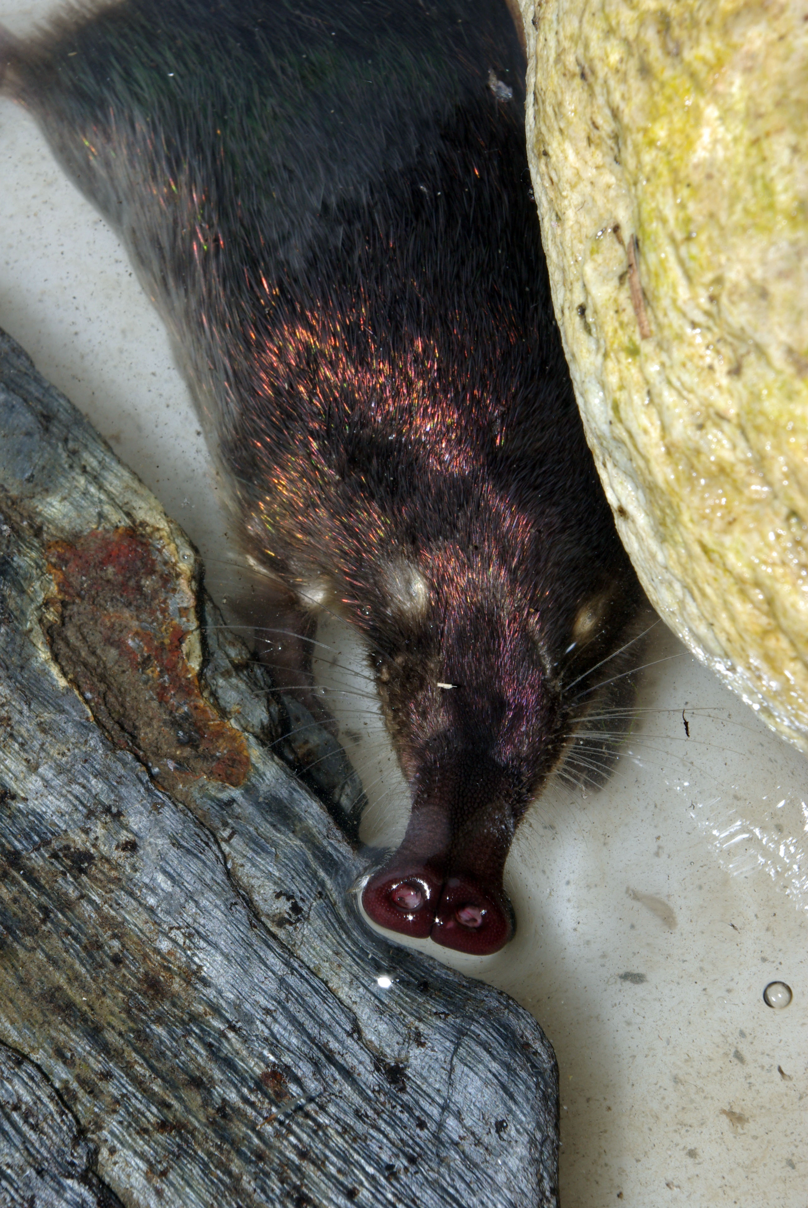 Pyrenean Desman (Galemys pyrenaicus). River Santa Eulalia, Cabrera sub-basin, Sil basin. Santa Eulalia de Cabrera, León (Spain).